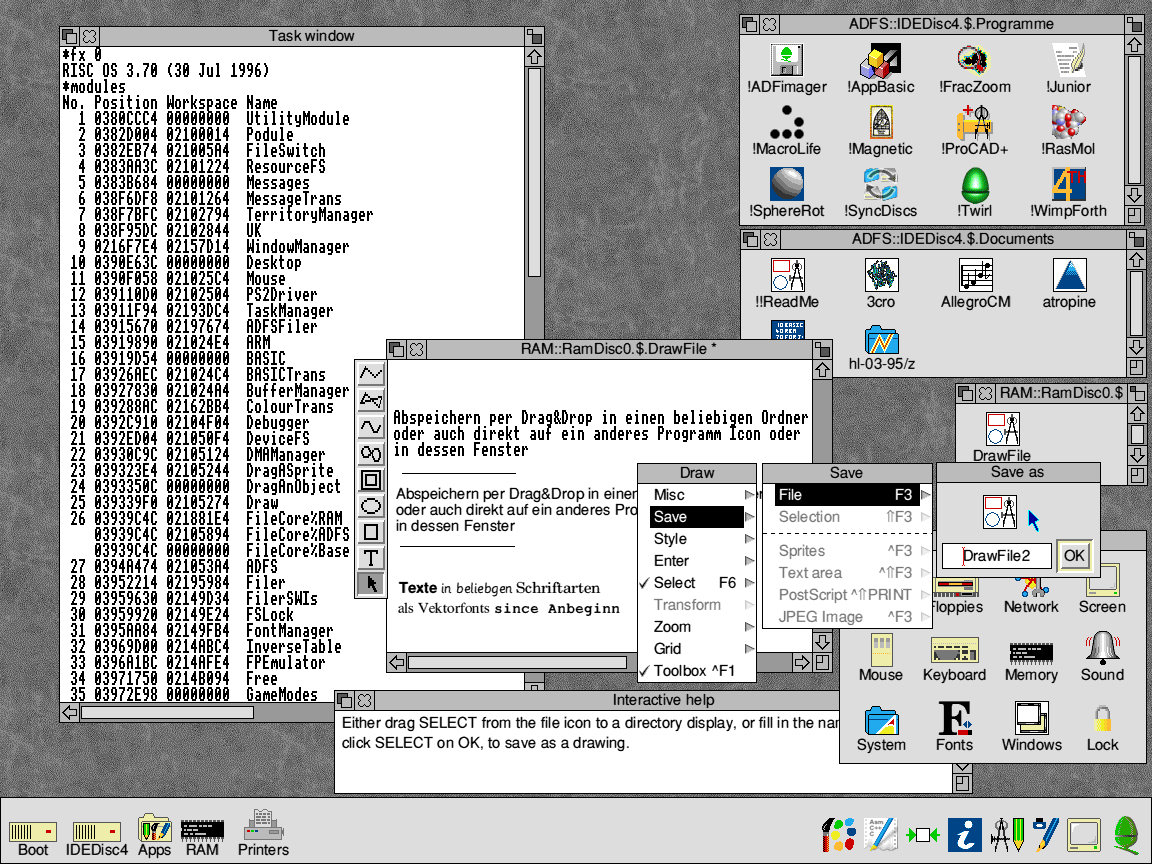 Demonstration of Drag&Drop and Modules in RISC OS v370